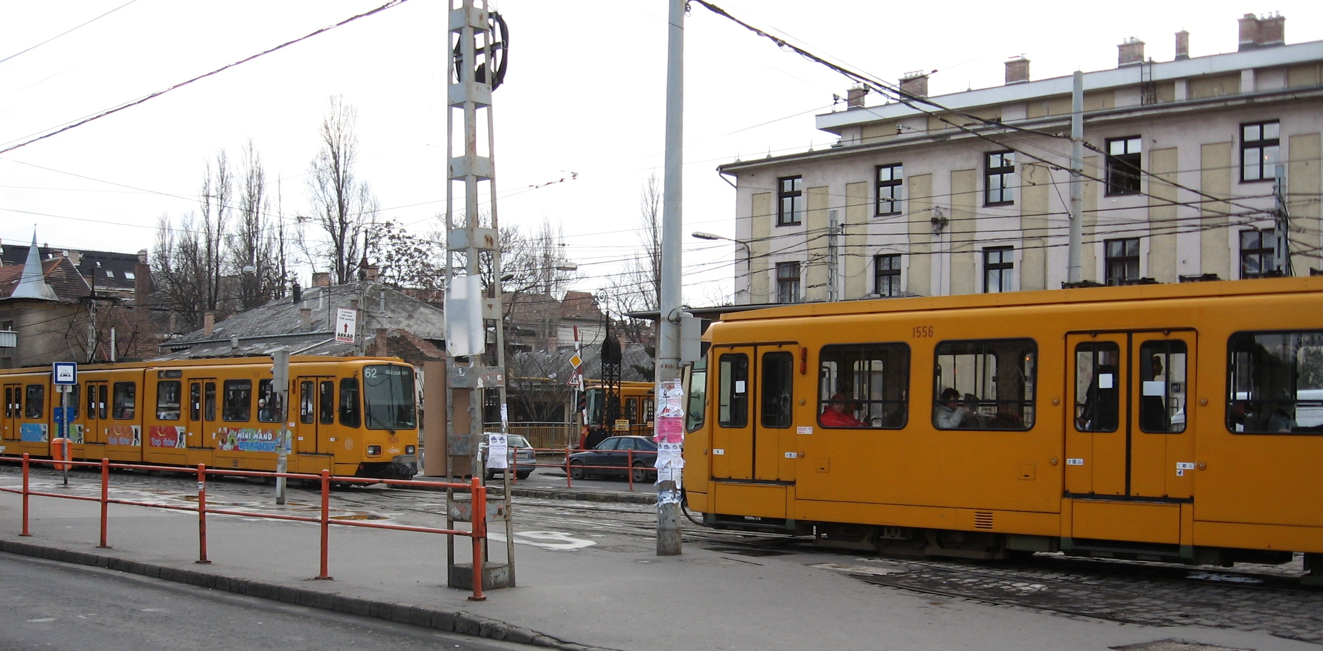 DÜWAG „TW 6000“ typ trams in Budapest.